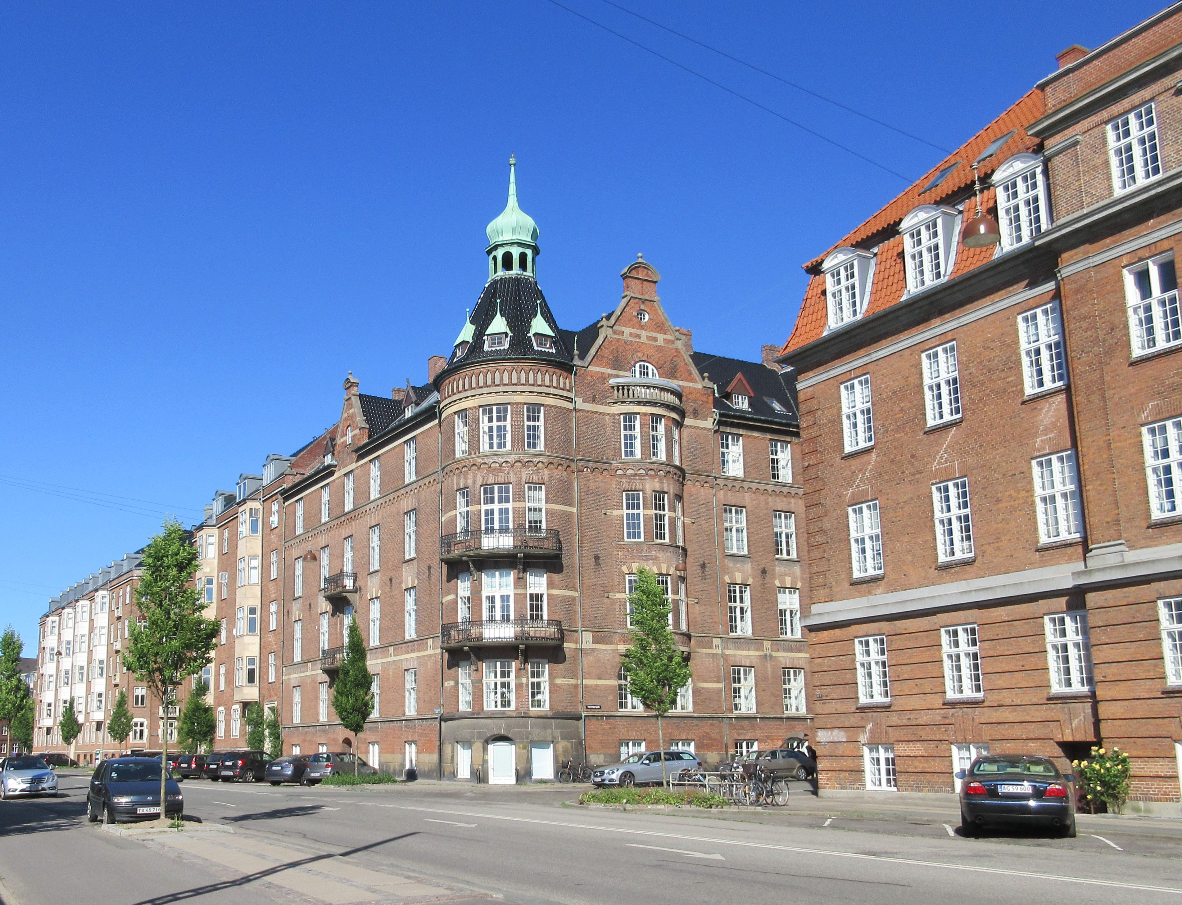 Stavangergade 6 from Kristianiagade in Copenhagen, Denmark